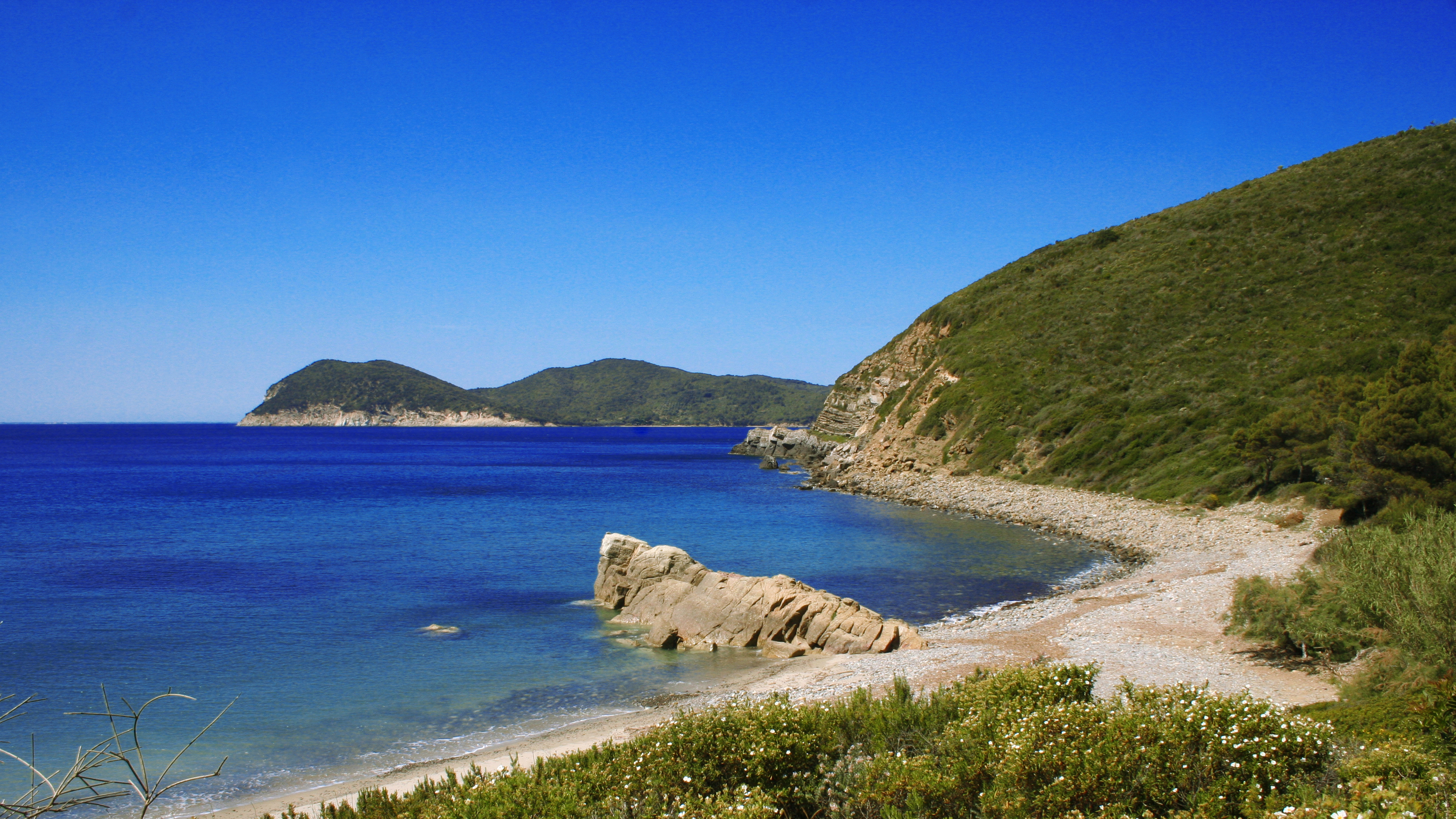 elba island